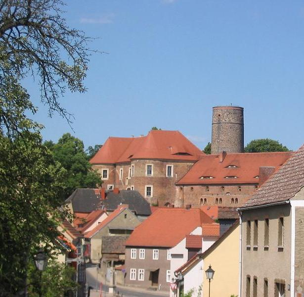 Town and Castle Eisenhardt in Belzig. Belzig is the central town of the district Potsdam-Mittelmark in the state Brandenburg of Germany. Belzig appertains to the natural preserve Naturpark Hoher Fläming.